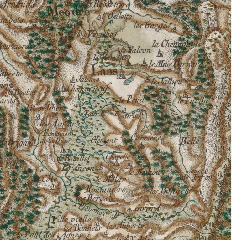 Lans according to the map of France surrounding Grenoble number 119